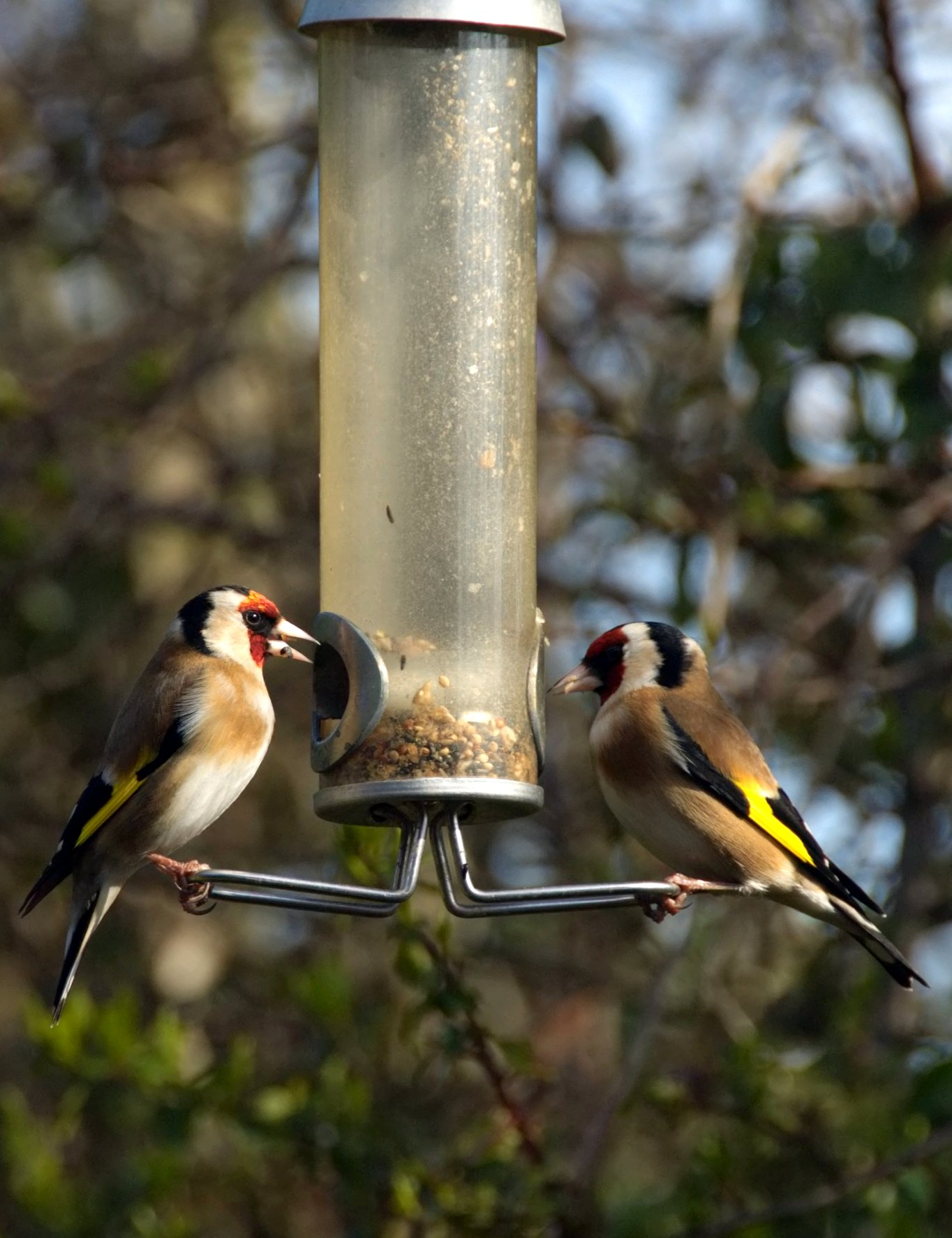 European Goldfinch (Carduelis carduelis). Two birds on a garden birdfeeder.